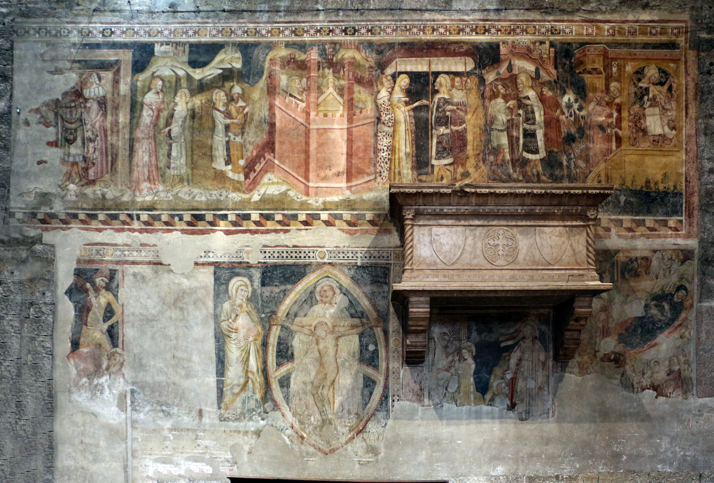 Churches in Trento